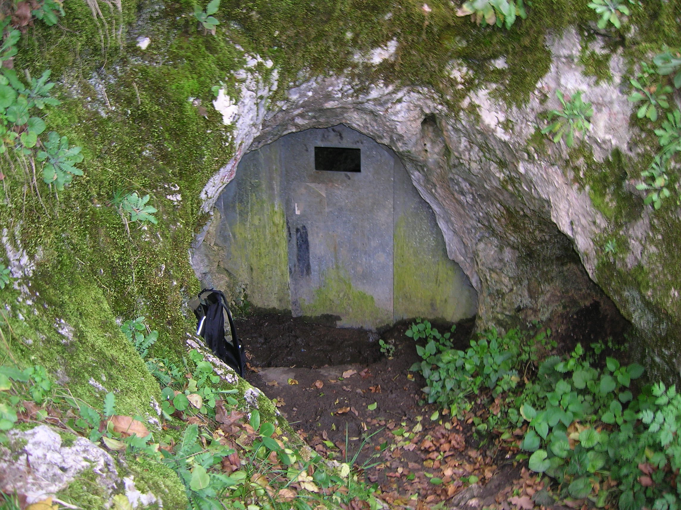 Main entrance of Solymári-ördöglyuk (Solymár Cave)